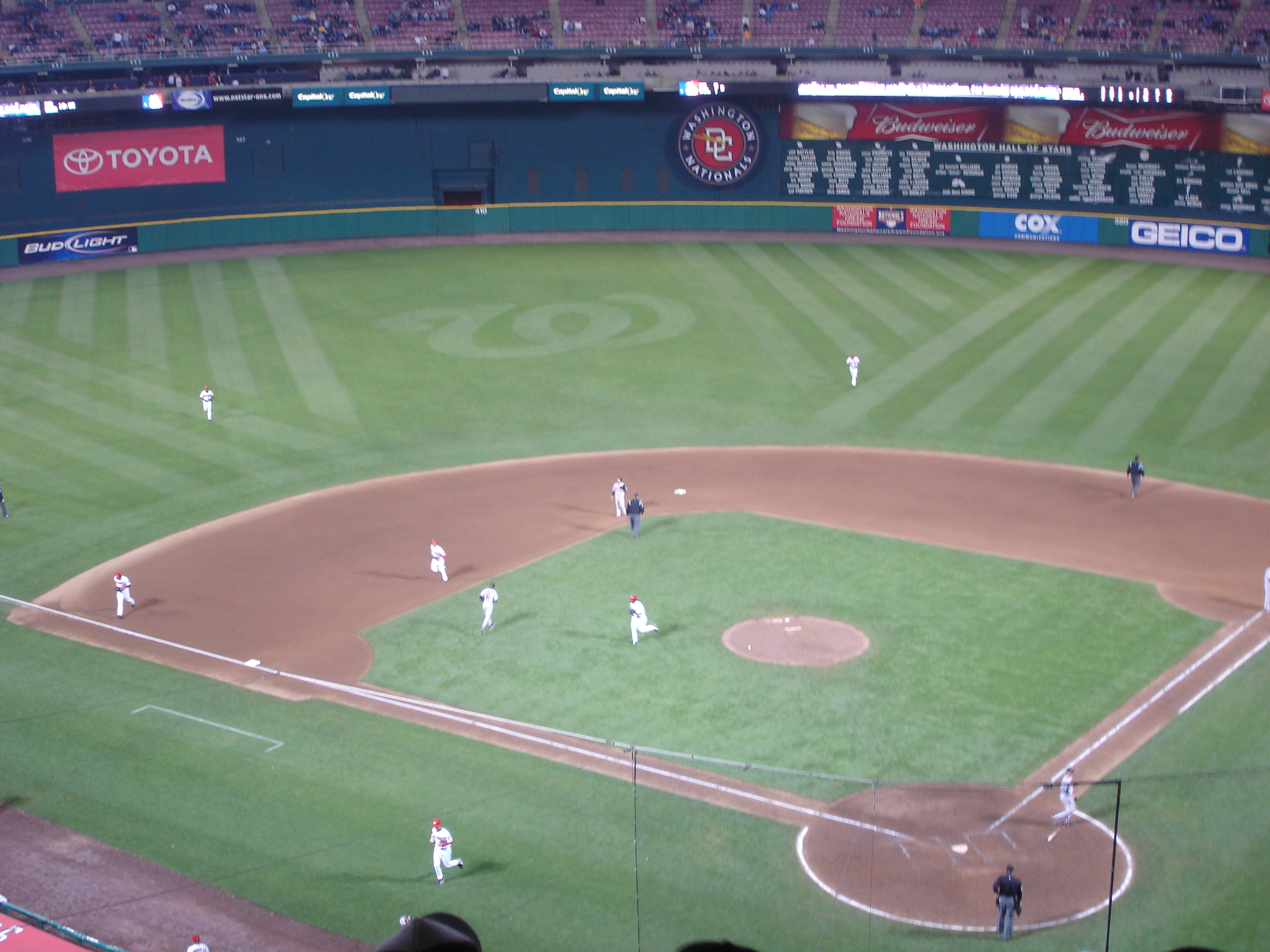 A picture I took on my senior trip